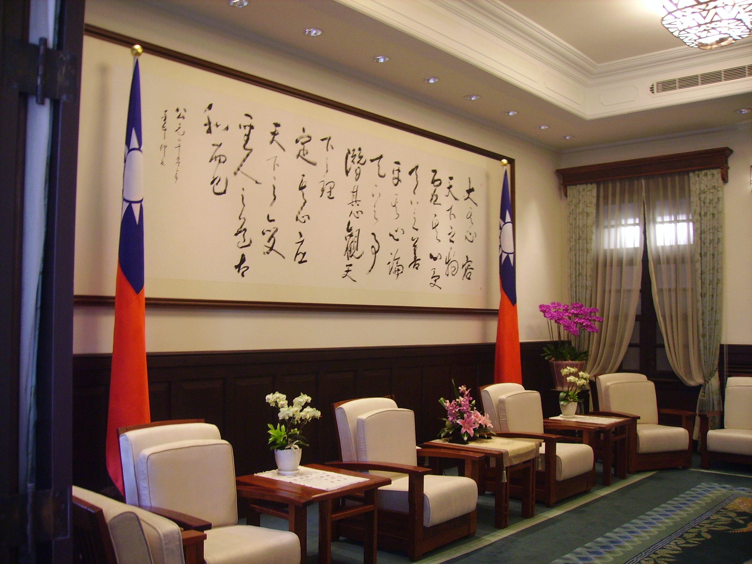 Presidential Building (Taipei)Bân-lâm-gú: Tsóng-thóng-hú(Tâi-pak). 總統府（臺北）